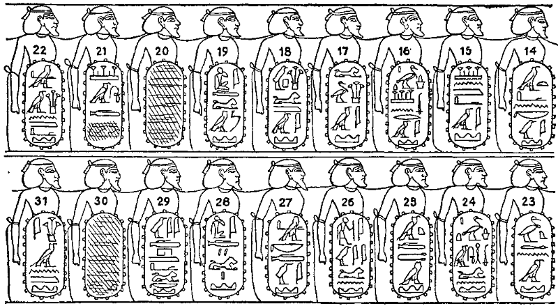 An illustration from the Encyclopaedia Biblica, a 1903 publication which is now in the public domain. Fig. 15 for article "Egypt". Image of a part of a list of place-names (each in a cartouche) in Ancient Judah and Israel. This list was created by Shoshenq I (who is identified with Biblical Pharaoh Shishak), and forms part of the wall of the Temple of Amun-Ra at Karnak. 14 = Taan(a)kfi (TAANACH), 15 = Shanema (SHUNEM) 16 = Biti-sanra 17 = Ruhaba (REHOB) 18 = Hapuruma (HAPHARAIM), 19 = Ad(e)rumam (?), 20 (damnatio memoriae) 21 = Shawad(i) 22 = Mahan(ai)ma (MAHANAIM), 23 = K(e)ba'ana (GIBBON), 24 = Biti-hwarun (BETH-HORON). 25 = Karit(e)m (KIRIATHAIM), 26 = A(i)yulun (AIJALON), 27 = Mak(e)do (MEGGIDO), 28 = Adir(u), 29 = Yud-h(a)maruk (Yad-ham-melek?; see SHISHAK article in Encyclopaedia Biblica). 30 (damnatio memoriae) 31 Ha-u-n(e)-m. The image ultimately originates from the records of the Lepsius expedition